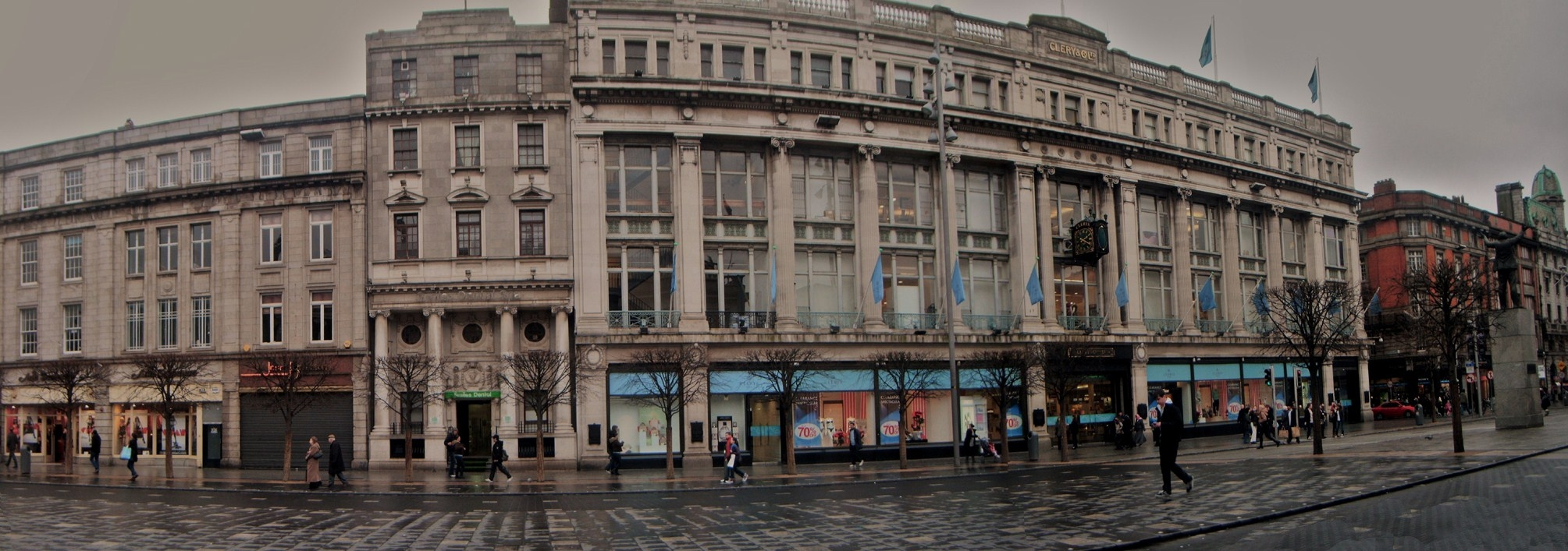 Clearys Department store panoramic